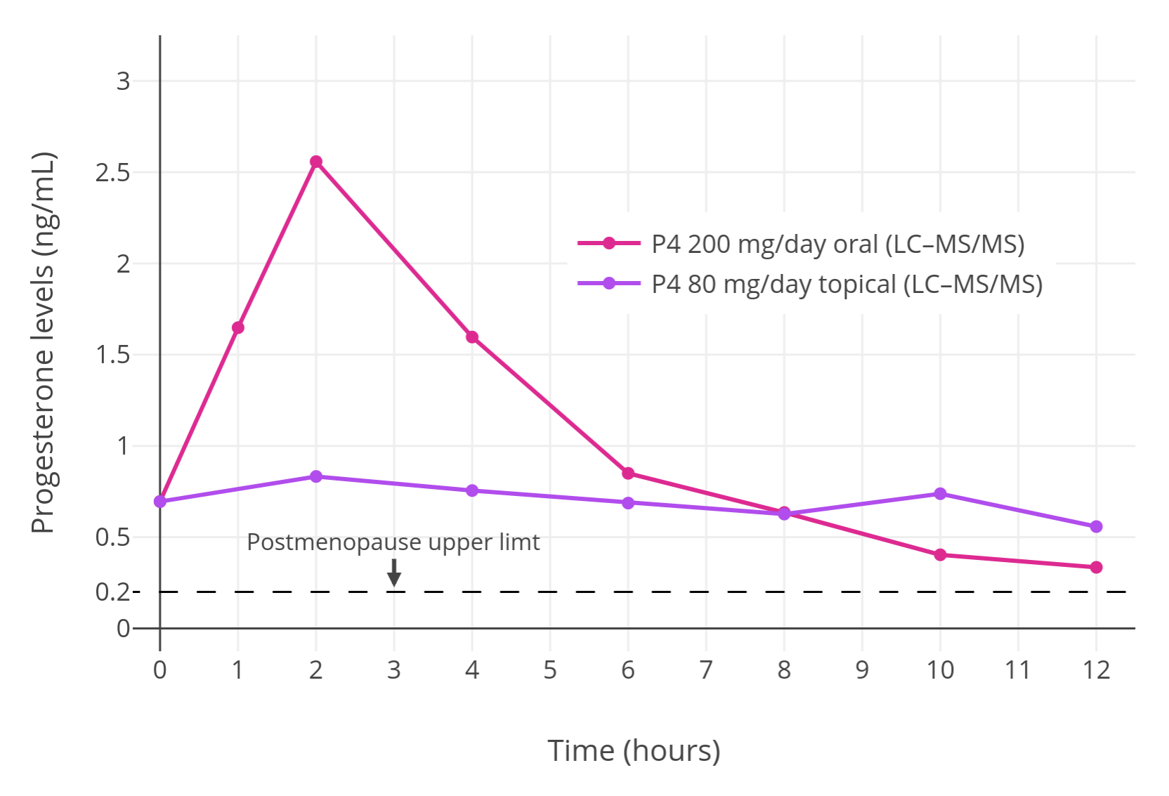 Levels of progesterone at steady state (day 12) in whole blood measured using liquid chromatography–tandem mass spectrometry (LC–MS/MS) during continuous therapy with 200 mg/day oral progesterone (one 200 mg capsule once daily) or 80 mg/day topical progesterone (one 40 mg Pro-Gest® over-the-counter cream application twice daily) in postmenopausal women. Cmax levels were 2.8 ng/mL and Cavg(0–24) levels were 0.14 ± 0.18 ng/mL for oral progesterone. Median AUC levels were 12.5 ng•hour/mL for oral progesterone and 10.5 ng•hour/mL for topical progesterone. Source of the values: (June 2005). "Over-the-counter progesterone cream produces significant drug exposure compared to a food and drug administration-approved oral progesterone product". J Clin Pharmacol 45 (6): 614–9. PMID 15901742.